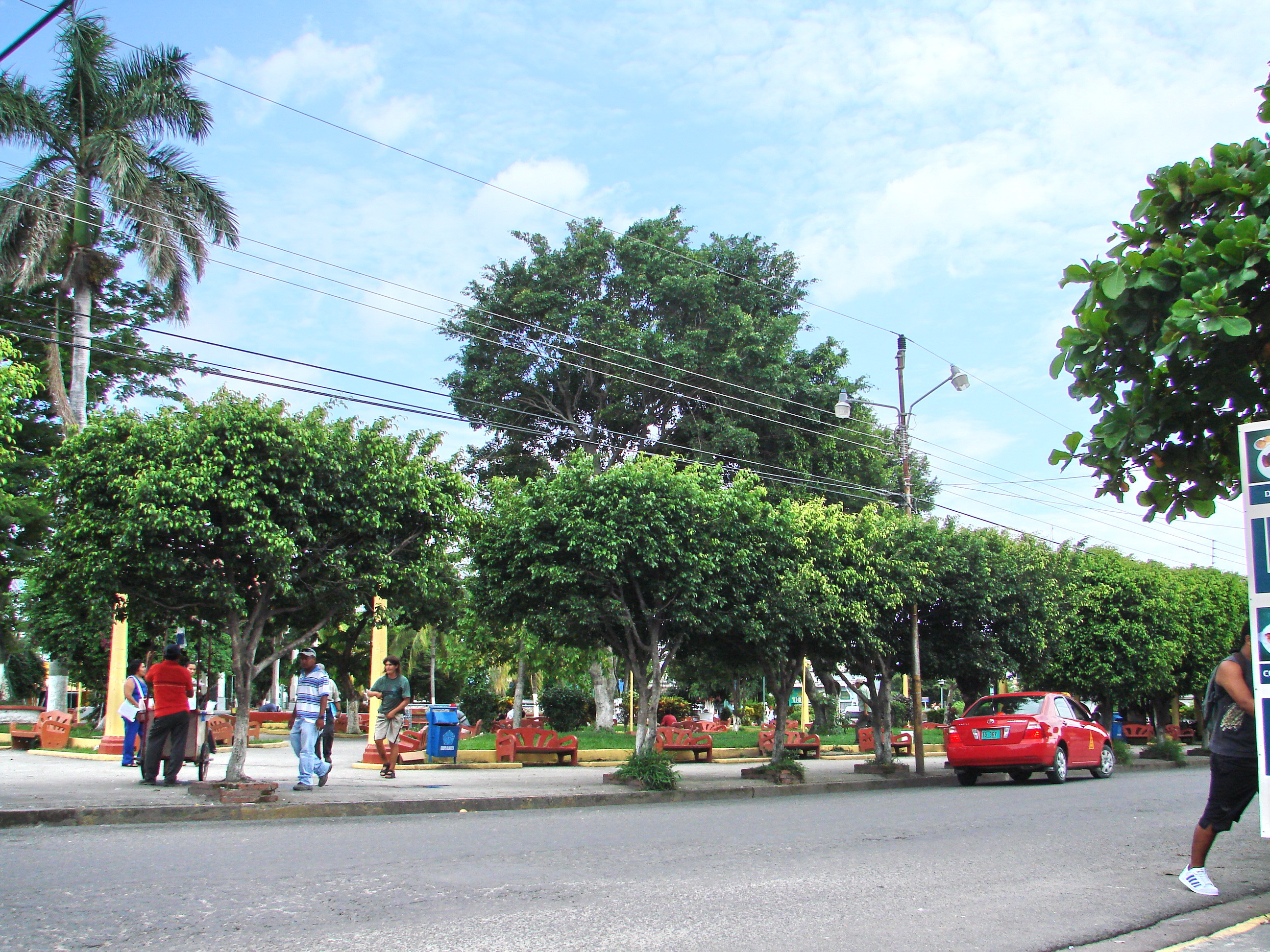 Liberia (Costa Rica), parque central